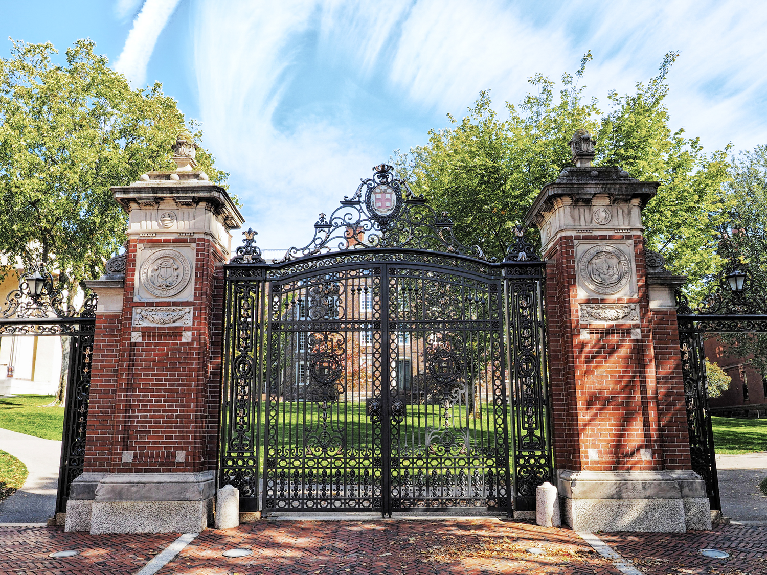 Color corrected version of Photograph depicts the Van Wickle Gates at Brown University